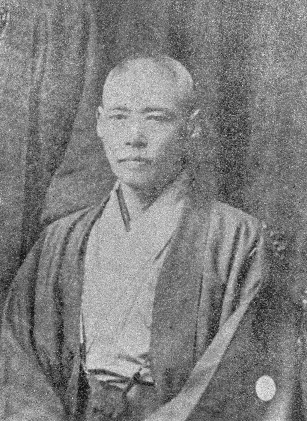 Portrait of Higuchi Hikoshiro (樋口彦四郎, 1849 – 1909)